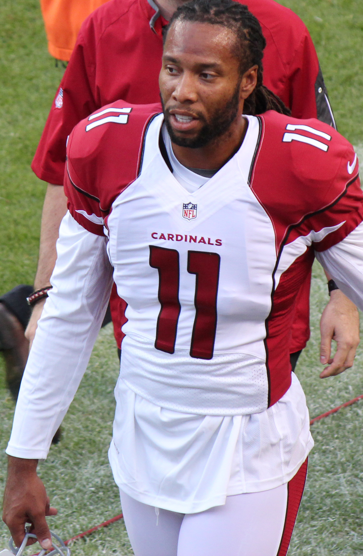 Larry Fitzgerald, a player on the National Football League.